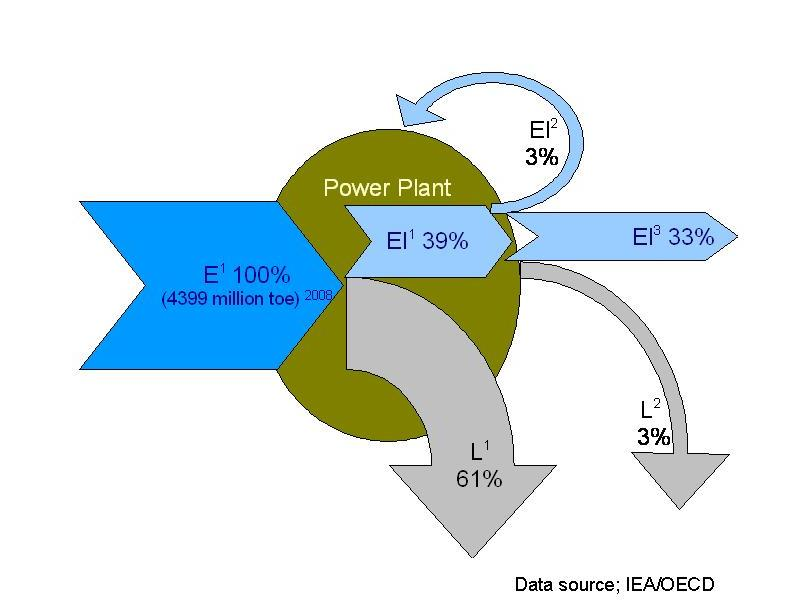 Energy flow of Power Plant, E1=Energy consumed, El1=Electricity generated, El2=Internal use, El3=Electricity for consumption, L1=Processing Loss, L2=Transmission Loss. (Result of year 2008)